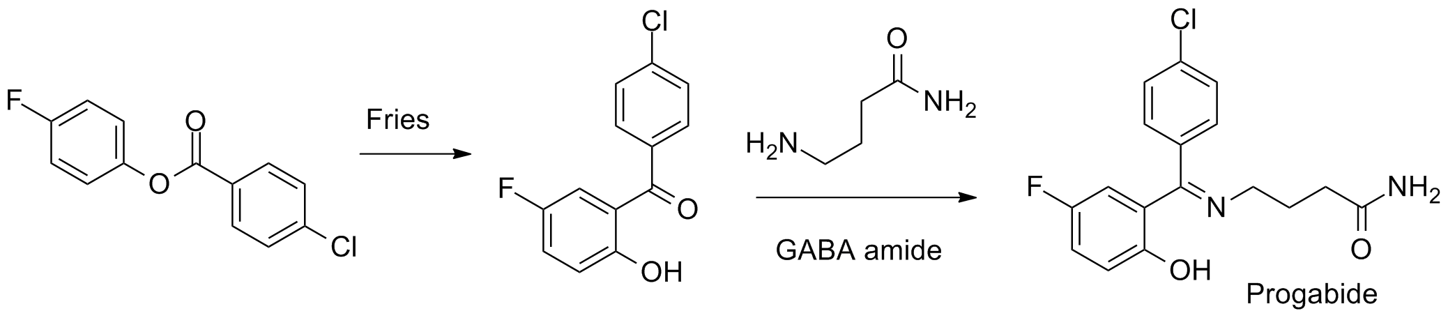 C Berthier, J. P. Allaigre, and J. Debois, French Demande, 2,553,763 (1985) via Chem. Abstr., 103:141,480p (1985).